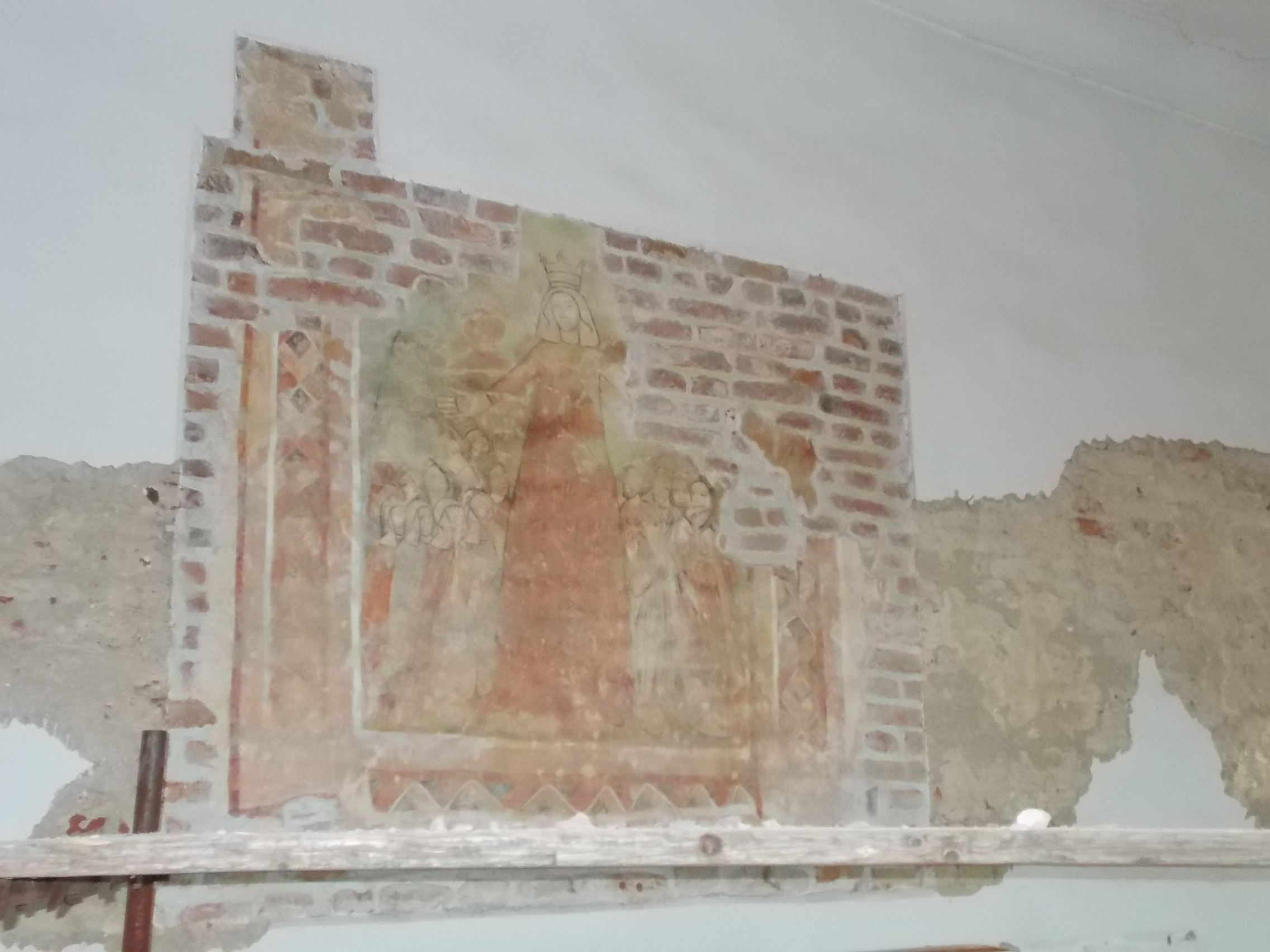 Immaculate Conception RC church. Inside: Gothic fresco fragments (15th century). The church was under renovation (2017 summer). - Kossuth square, Máriapócs, Szabolcs-Szatmár-Bereg County, Hungary.